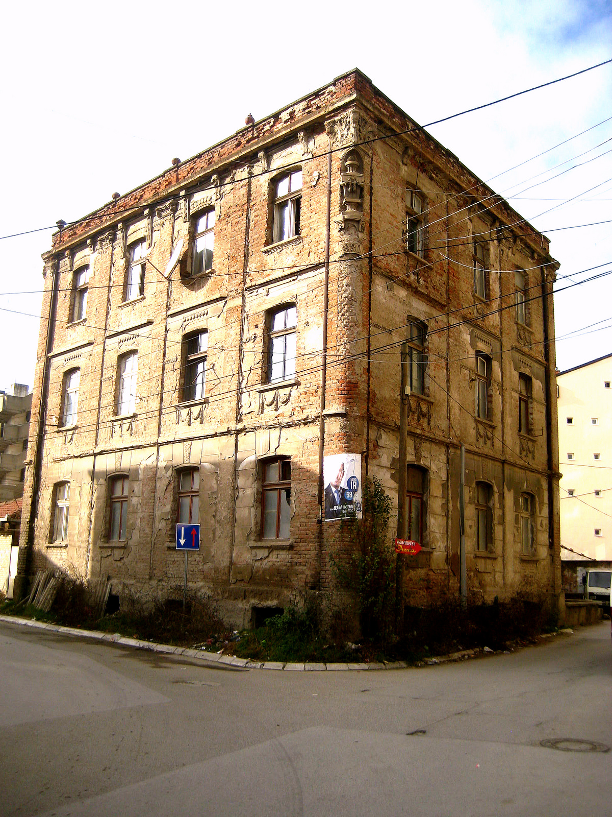 Xhafer Deva's house built in 1930 in Mitrovica, declared as a cultural monument in Kosovo